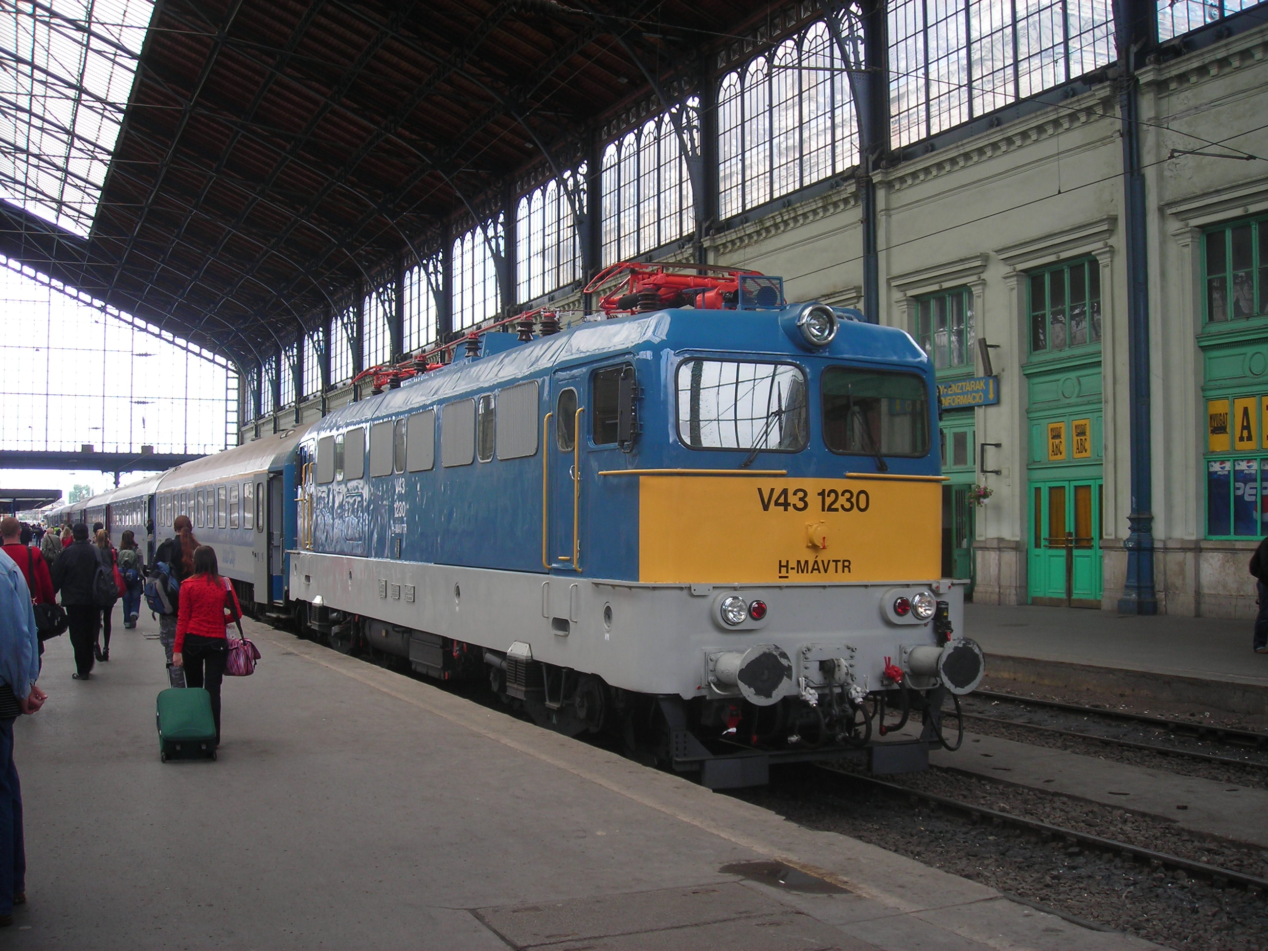 MÁV V43 1230 in the Nyugati railway station